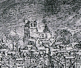 Scholeusstikket made in 1580, cropped to show Nikolaikirken